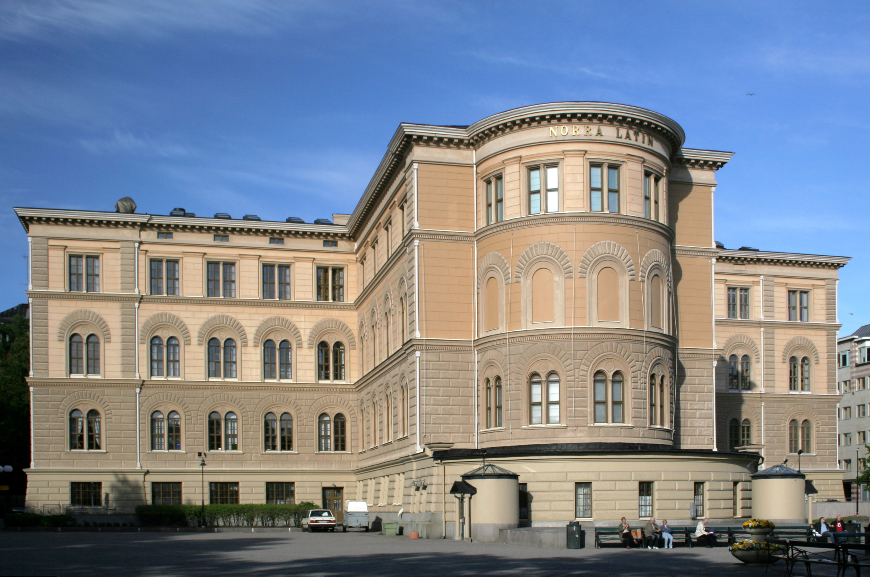 Norra Latin, Stockholm, Sweden. Former school, now conference center.